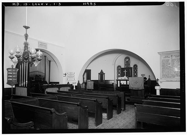 St. Paul's Episcopal Church, Sandy Bottom Road, Sandy Bottom, Kent County, MD, Interior